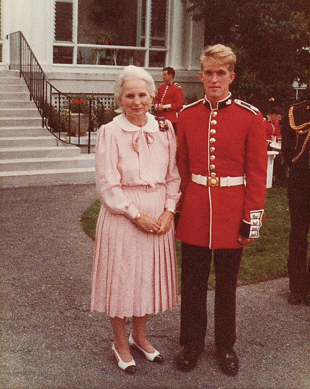 The then Governor-General, Her Excellency, Madame Jeanne Sauvé threw a Garden Party for The Ceremonial Guardsand for The Governor-General's Footguards at Rideau Hall.